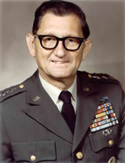 Edward Leon Rowny (1917–2017), a United States Army Lieutenant General and arms control adviser to five presidents.